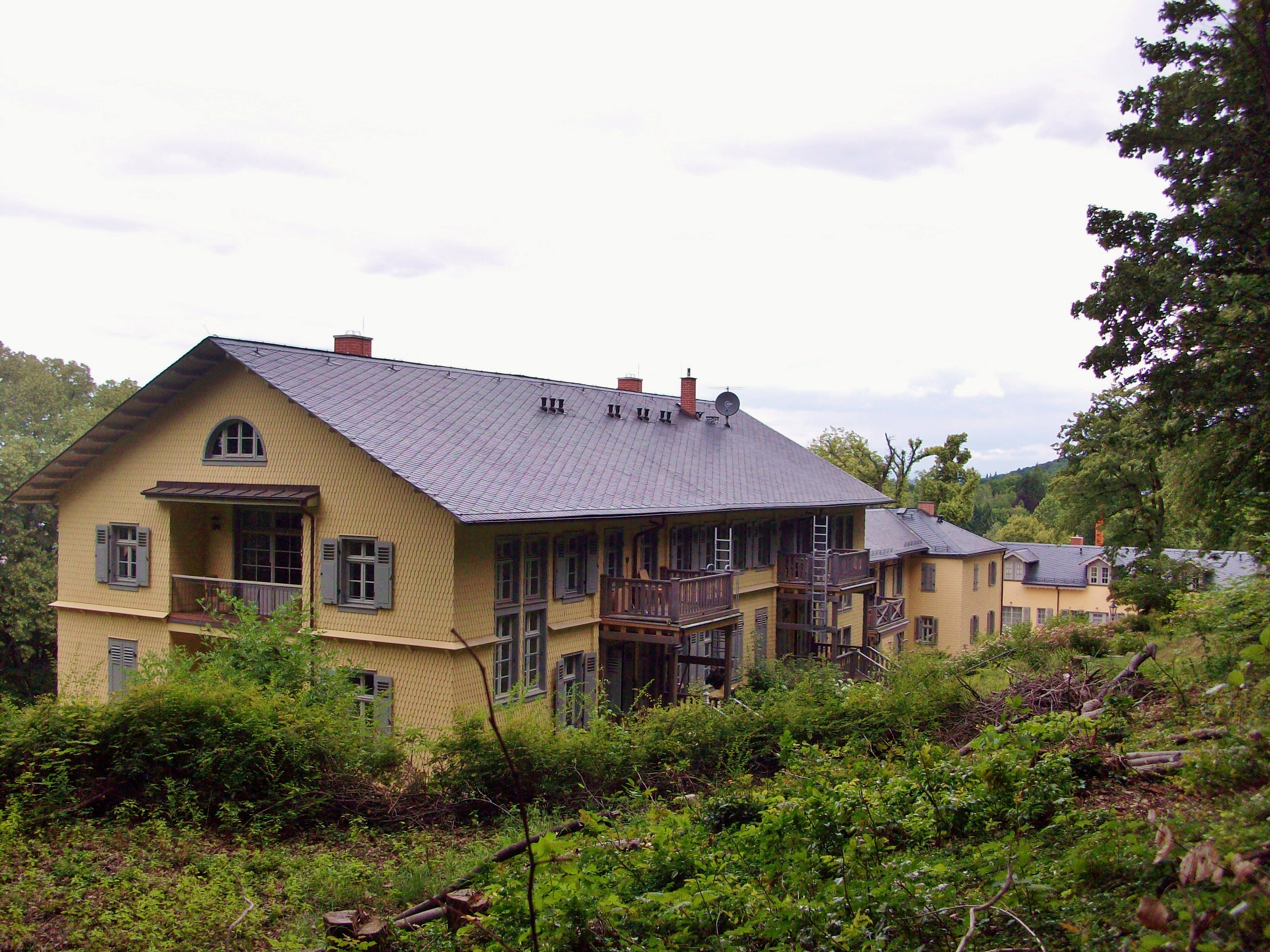 The castle "Seeheimer Schloss" from uphill side.